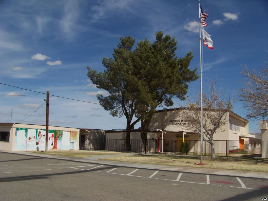 With enrollment dropping sharply over the last several years, officials plan to close Hinkley's only school next month. (Confirmed to be a work of the VOA by the legend in the lower right corner).